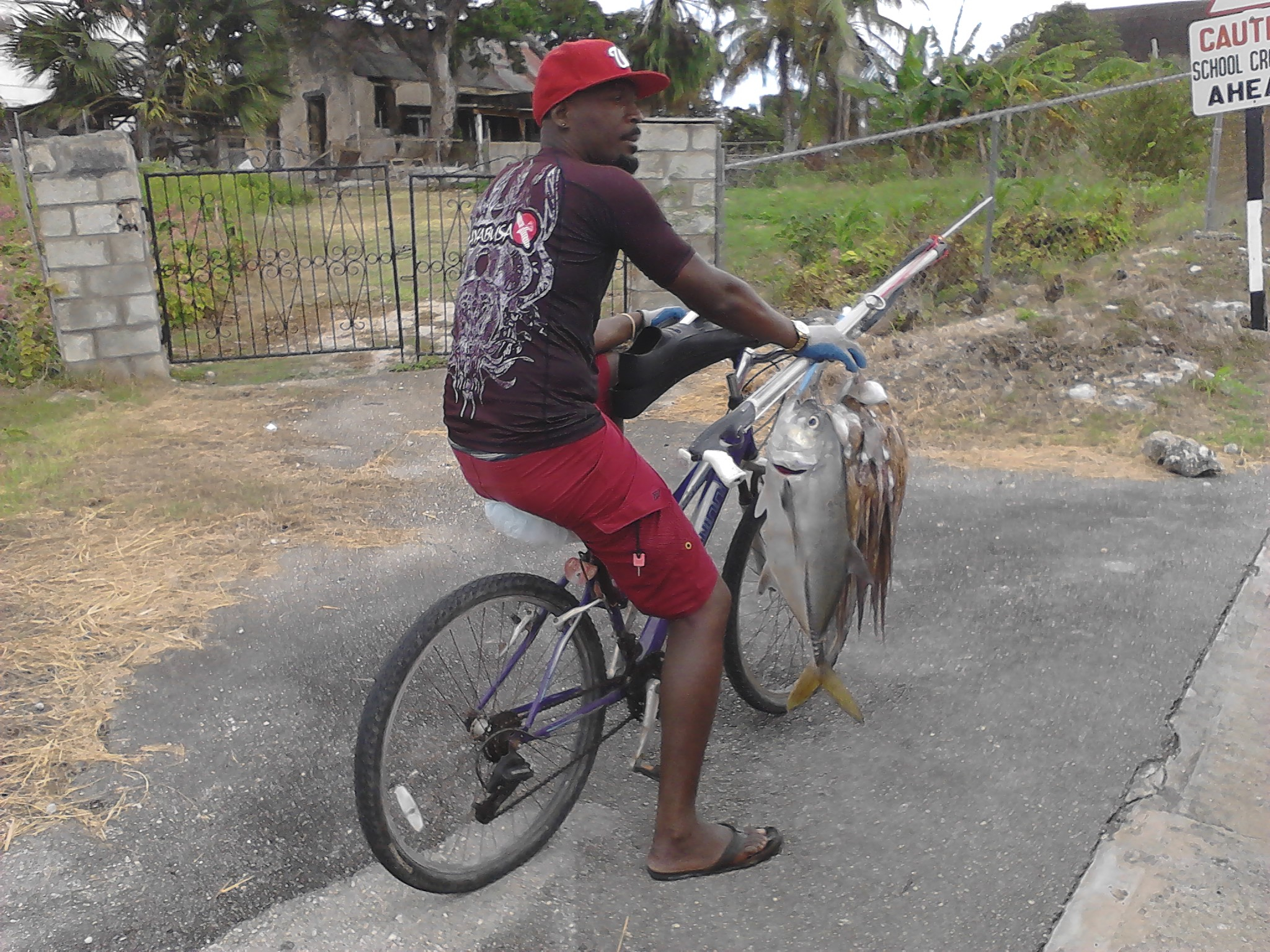 David cycling home to St Martin's with his Horse-Eye Jack and string of Sea Cats.